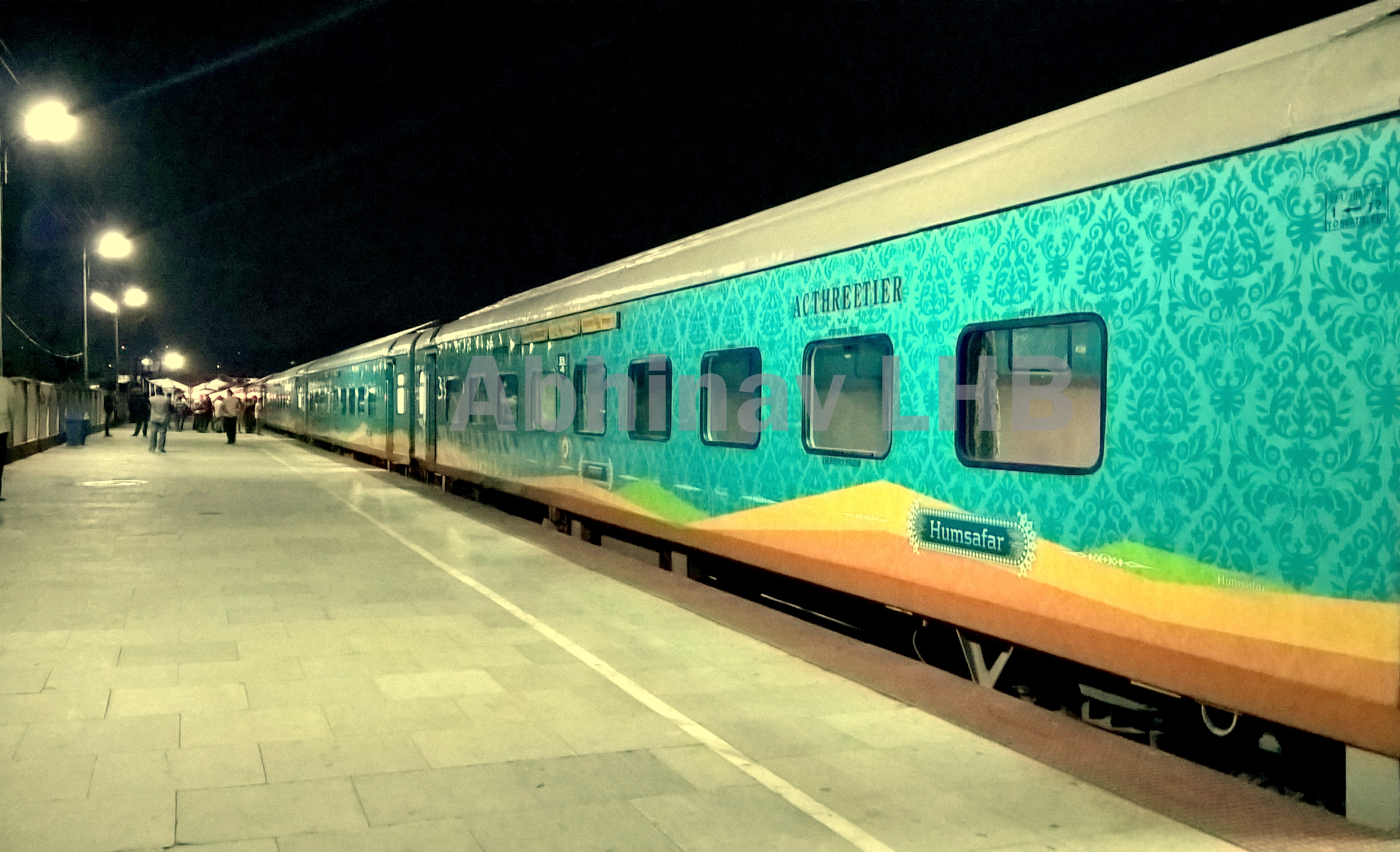 kamakhya-Banglore Humsafar express ready for departing